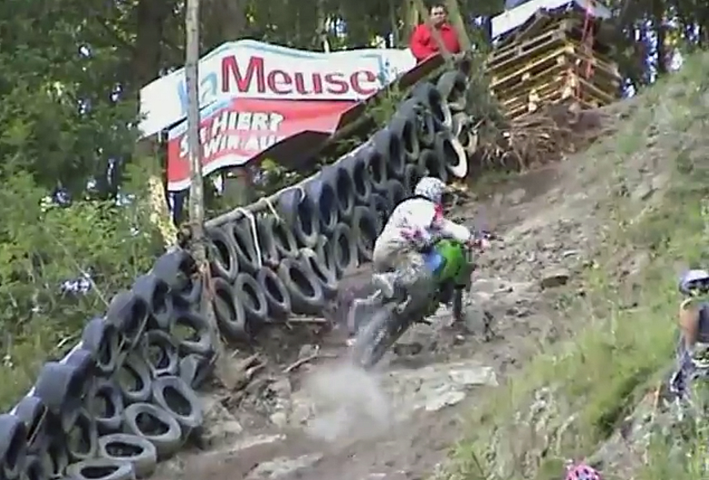 соревнования по Хилклимбингу в Бельгии в 2010 году